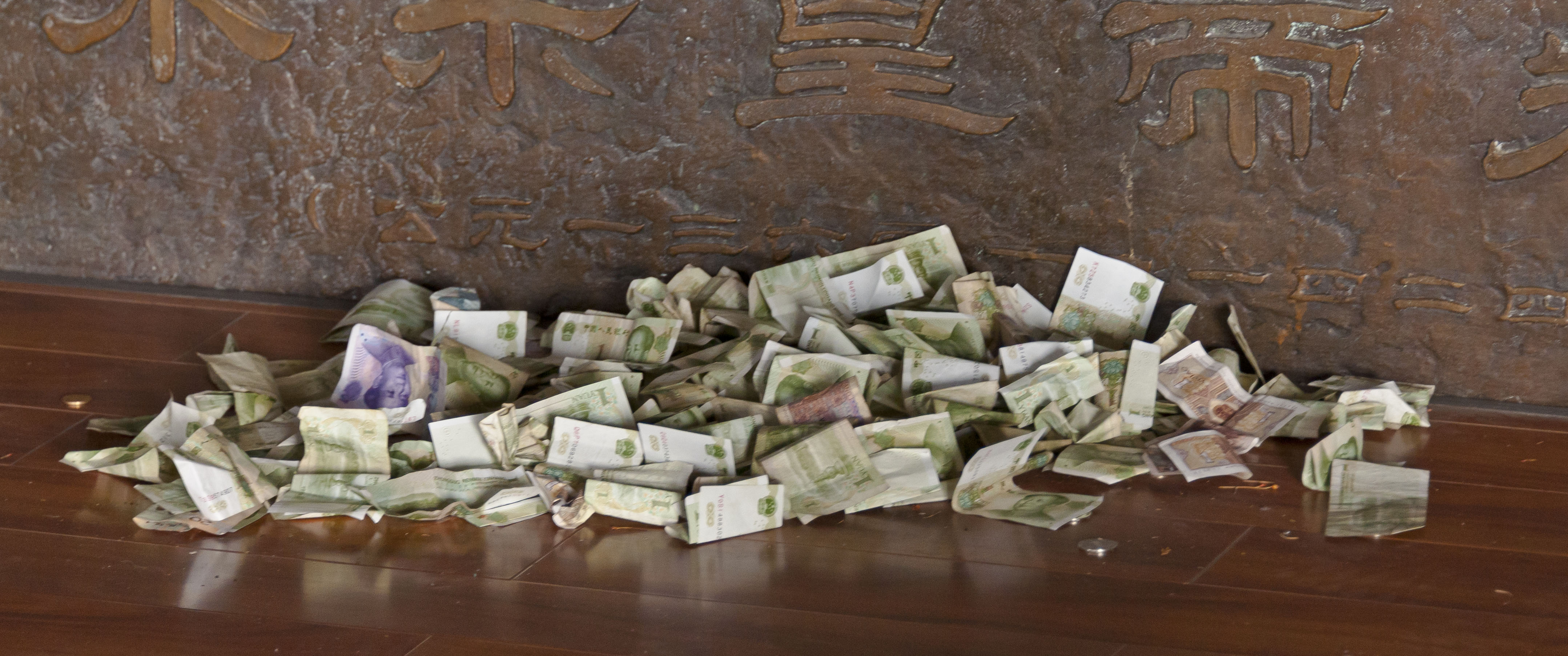 Chinese currency, mostly RMB1 notes, left at the foot of Yongle emperor statue in Ling'en Gate at his tomb on the outskirts of Beijing